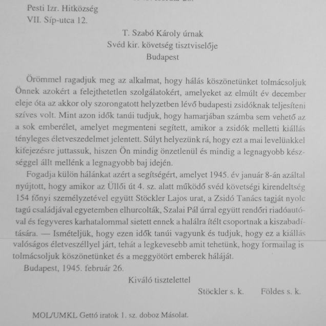 Document in the National Archives of Hungary 1945 Thank from Lajos Stöckler, President of the Jewish Community of Budapest to Karoly Szabo for rescuing 154 persons and his family (8 persons). The rescuig was in mortal danger also for Karoly Szabo. Karoly Szabo